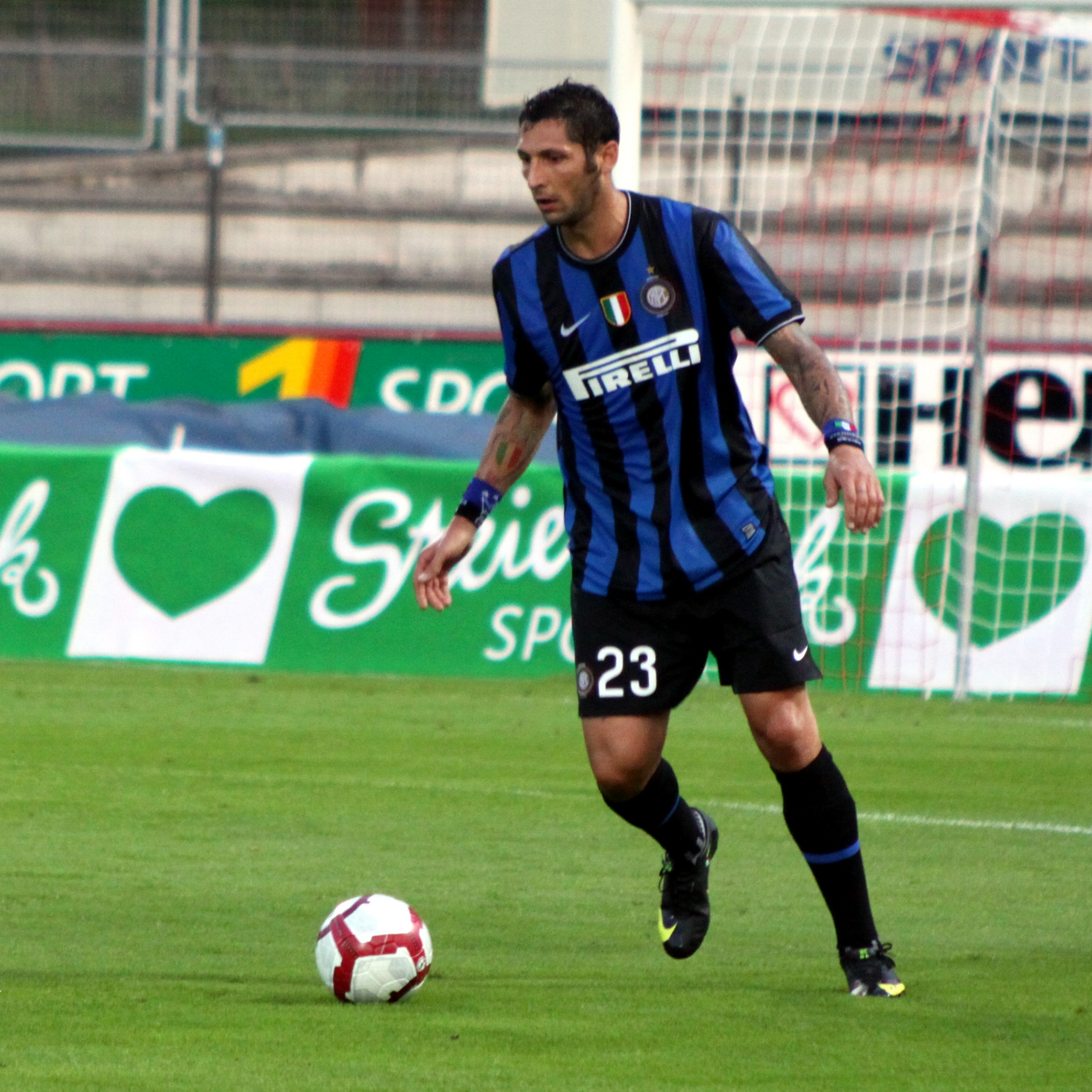 Marco Materazzi - F.C. Internazionale Milano